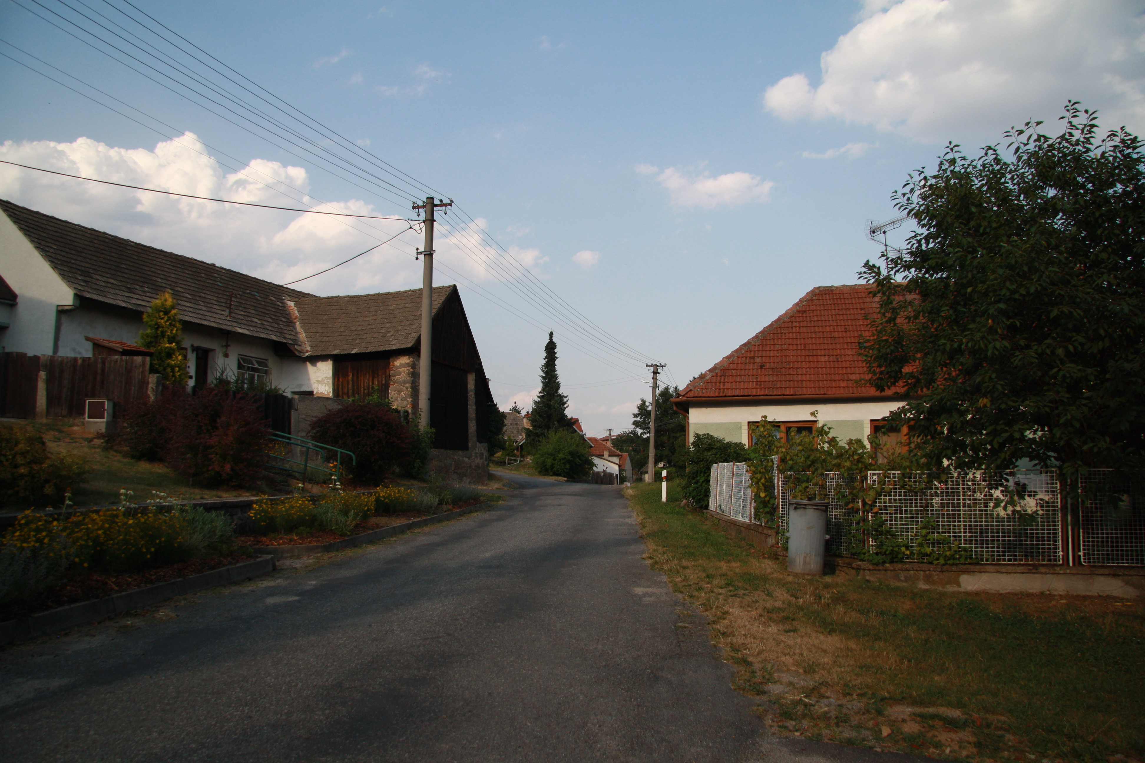 Upper part of Kamenná, Třebíč District.